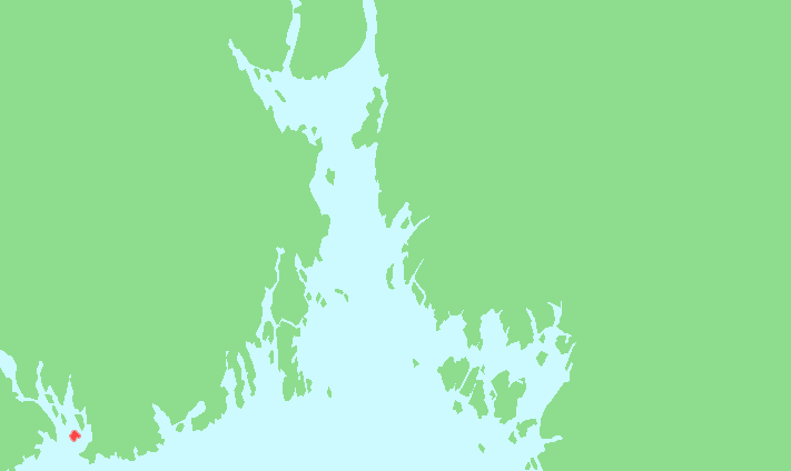 Locator map of Arøya, Vestfold, Norway